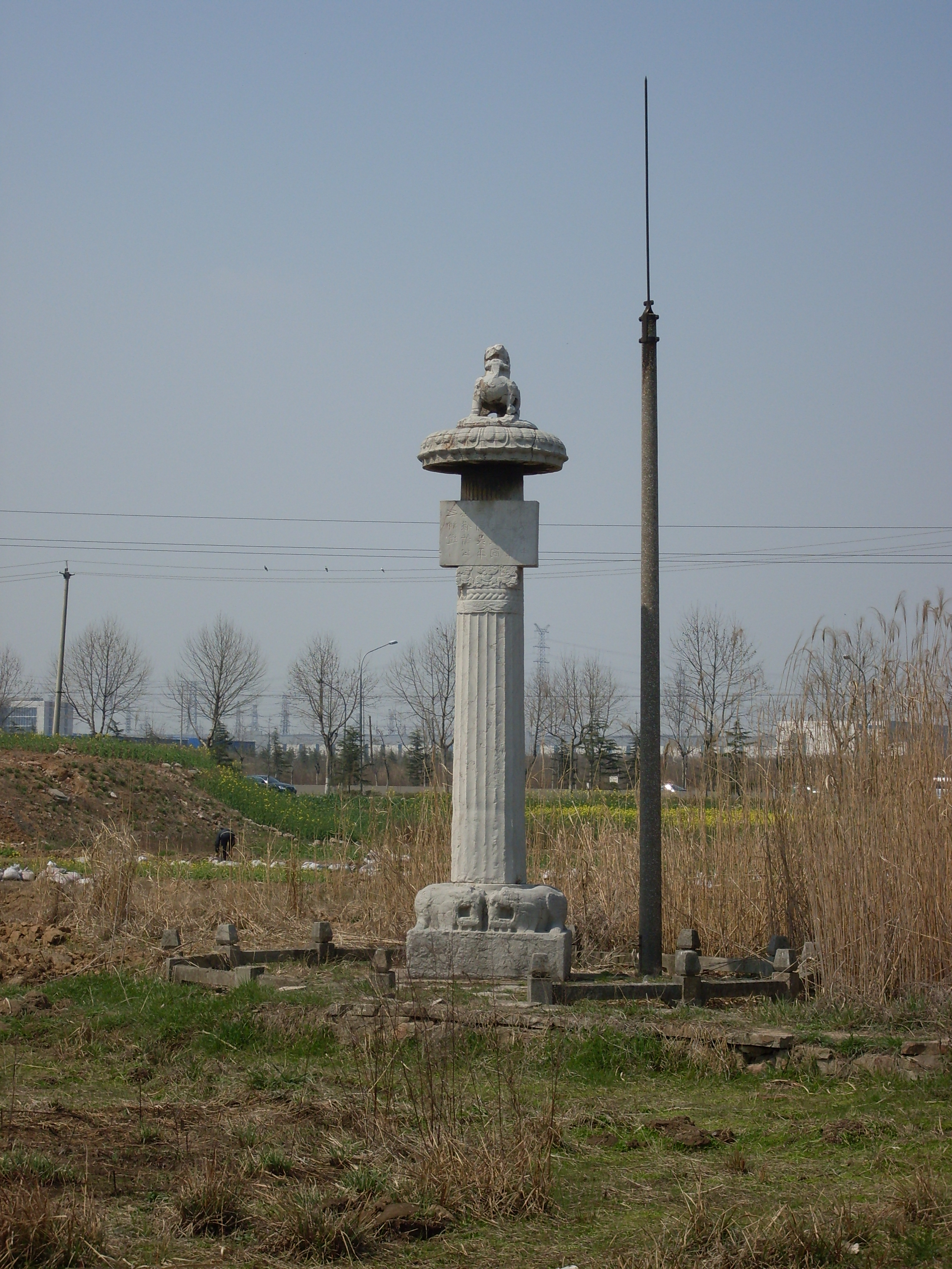 Tomb of Xiao Jing - Pillar